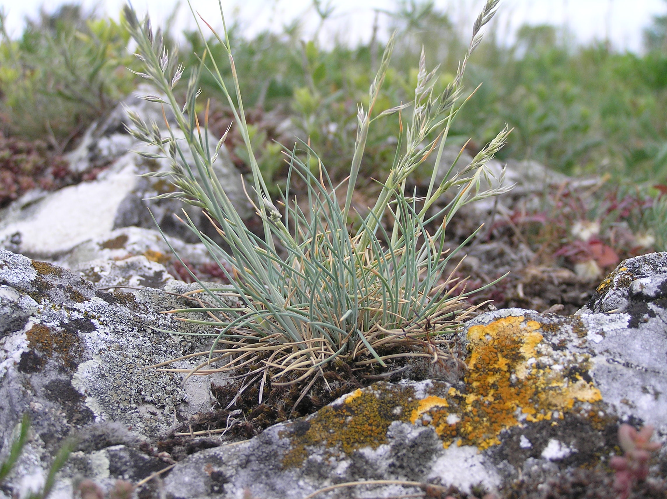 Festuca pallens, the hill Šibeničník near Mikulov, Southern Moravia, Czech Republic